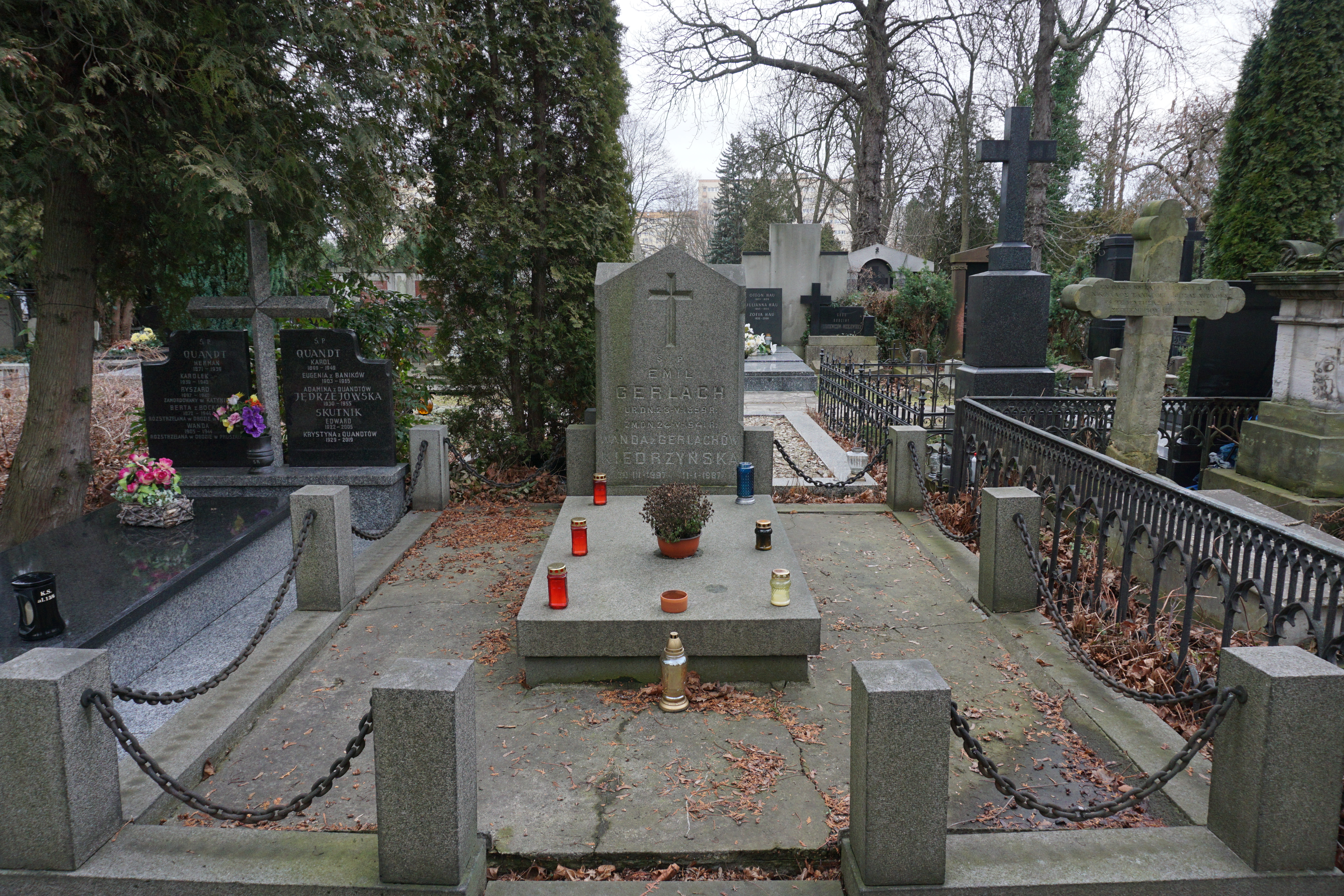 The grave of Emil Gerlach at the Evangelical-Augsburg Cemetery in Warsaw (avenue 13, grave 4)